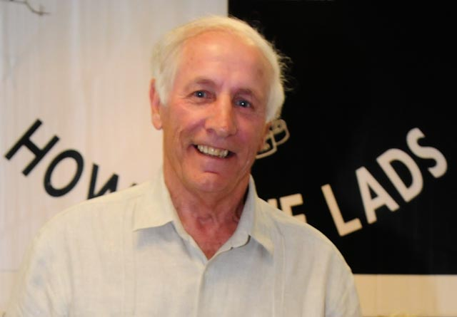 Ron McGarry, former Workington, Bolton Wanderers, Newcastle United, Barrow, Gateshead centre-forward at St.James' Park, Newcastle Upon Tyne, 19 August 2010